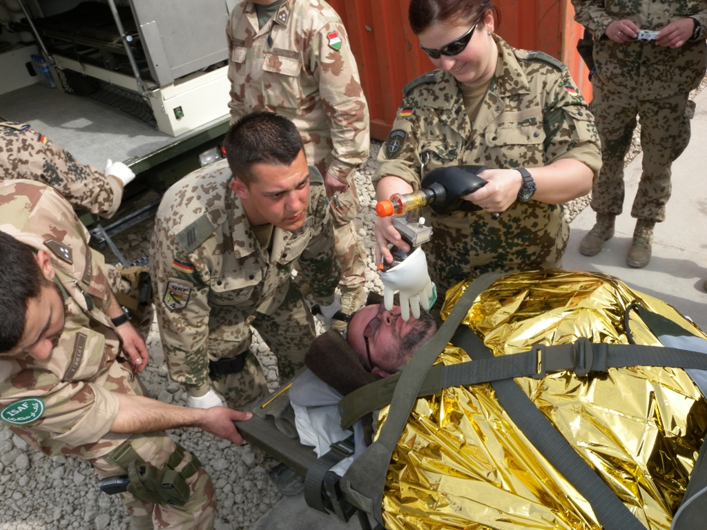 The Hungarian-German PRT demonstrated a medical evacuation as part of a medical exercise at Camp Pannonia.